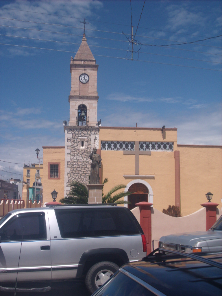 Outside shot of the church at Santa Catarina de Tepehuanes in Durango, Mexico.